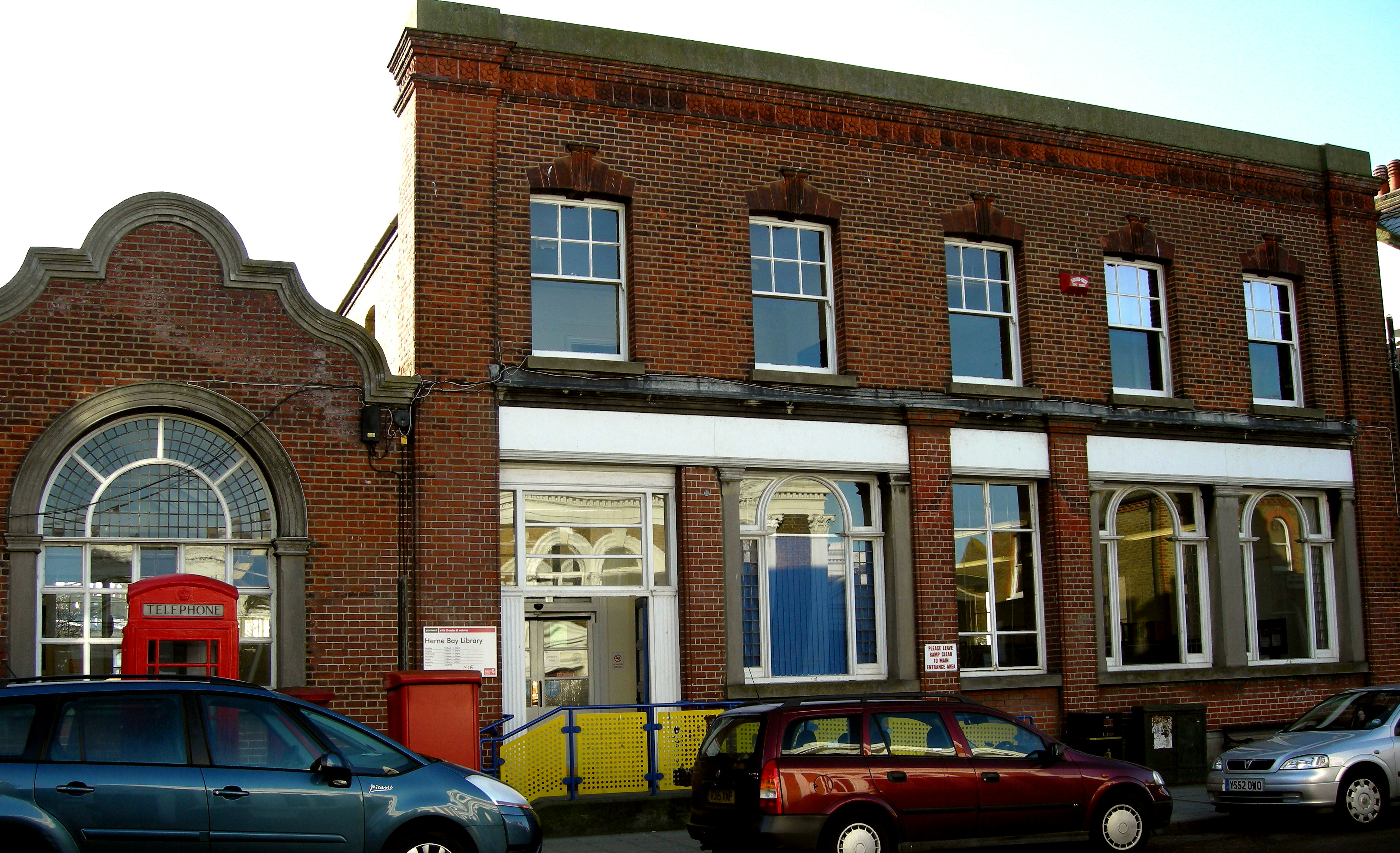 Herne Bay Library, Herne Bay, Kent: the previous location of Herne Bay Museum.